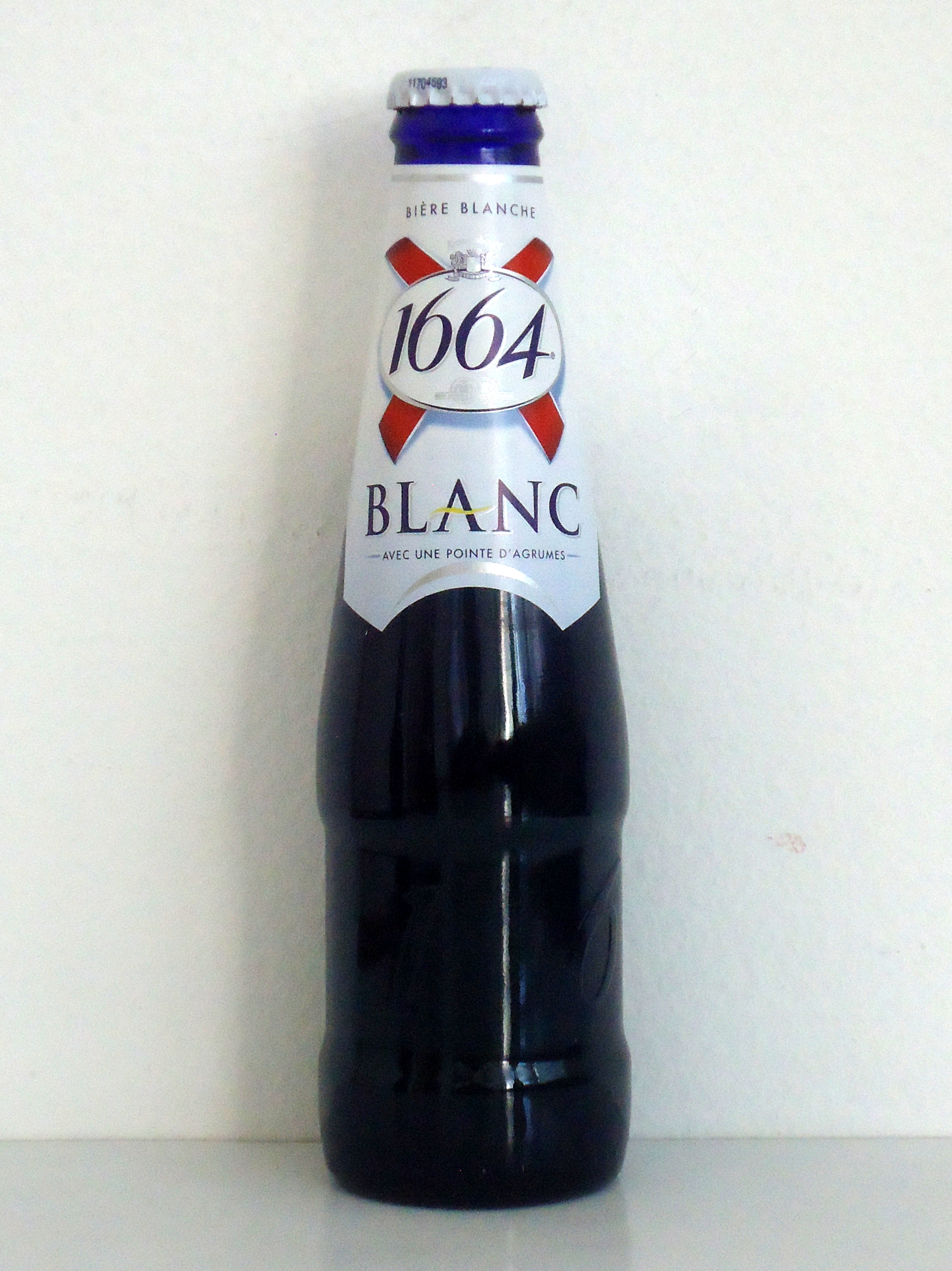 1664 blanc beer